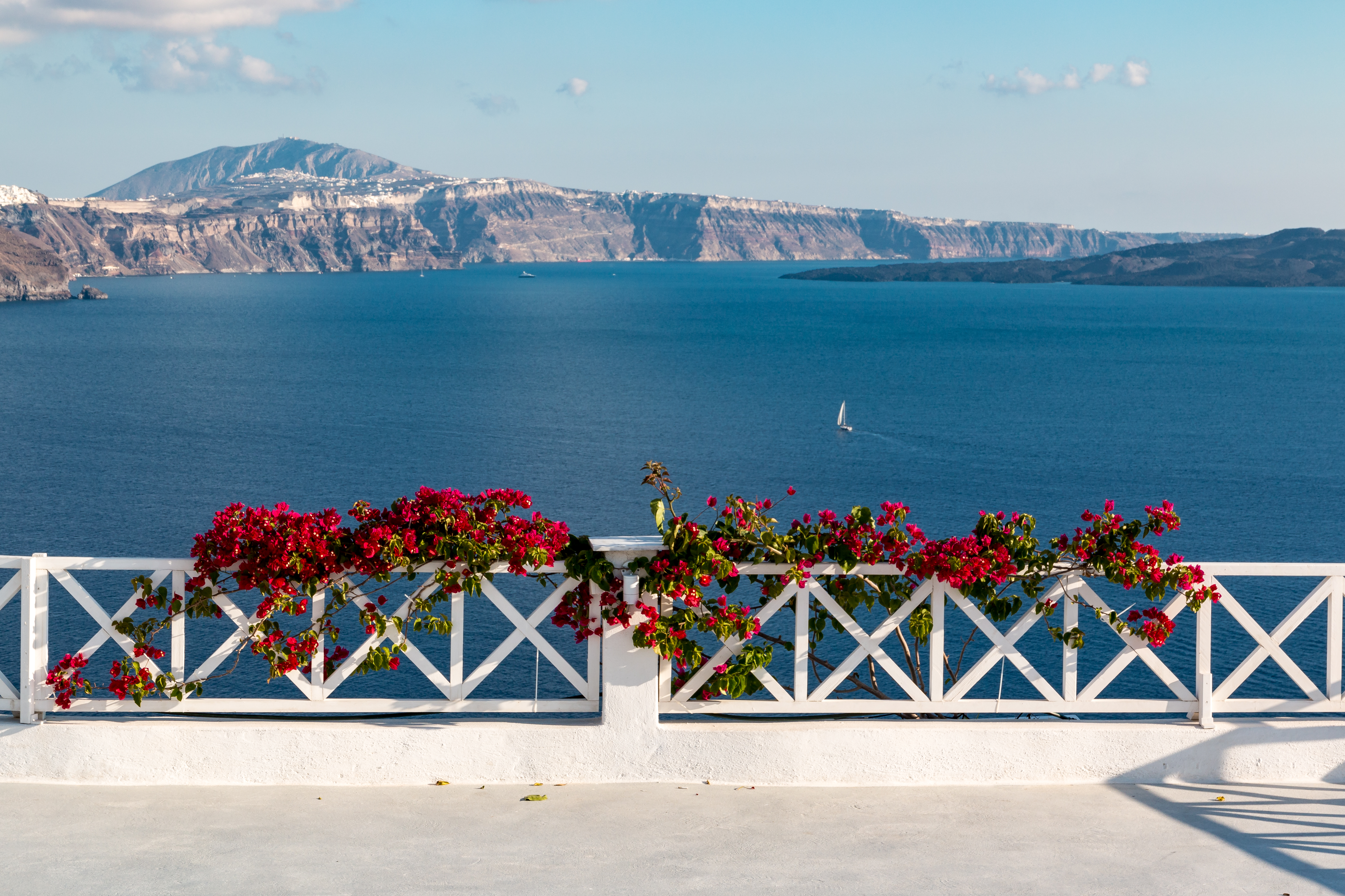 Railing in Ia, Santorini, Greece